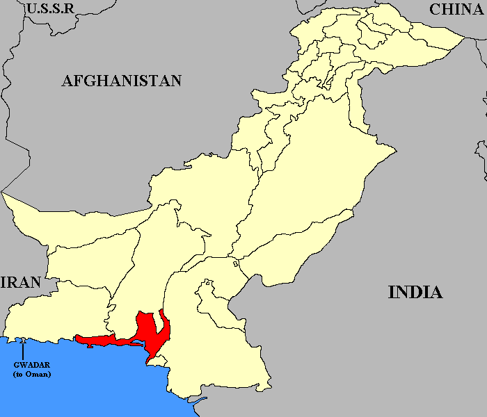 This map shows the relative position of Las Bela (princely state) until 1955.